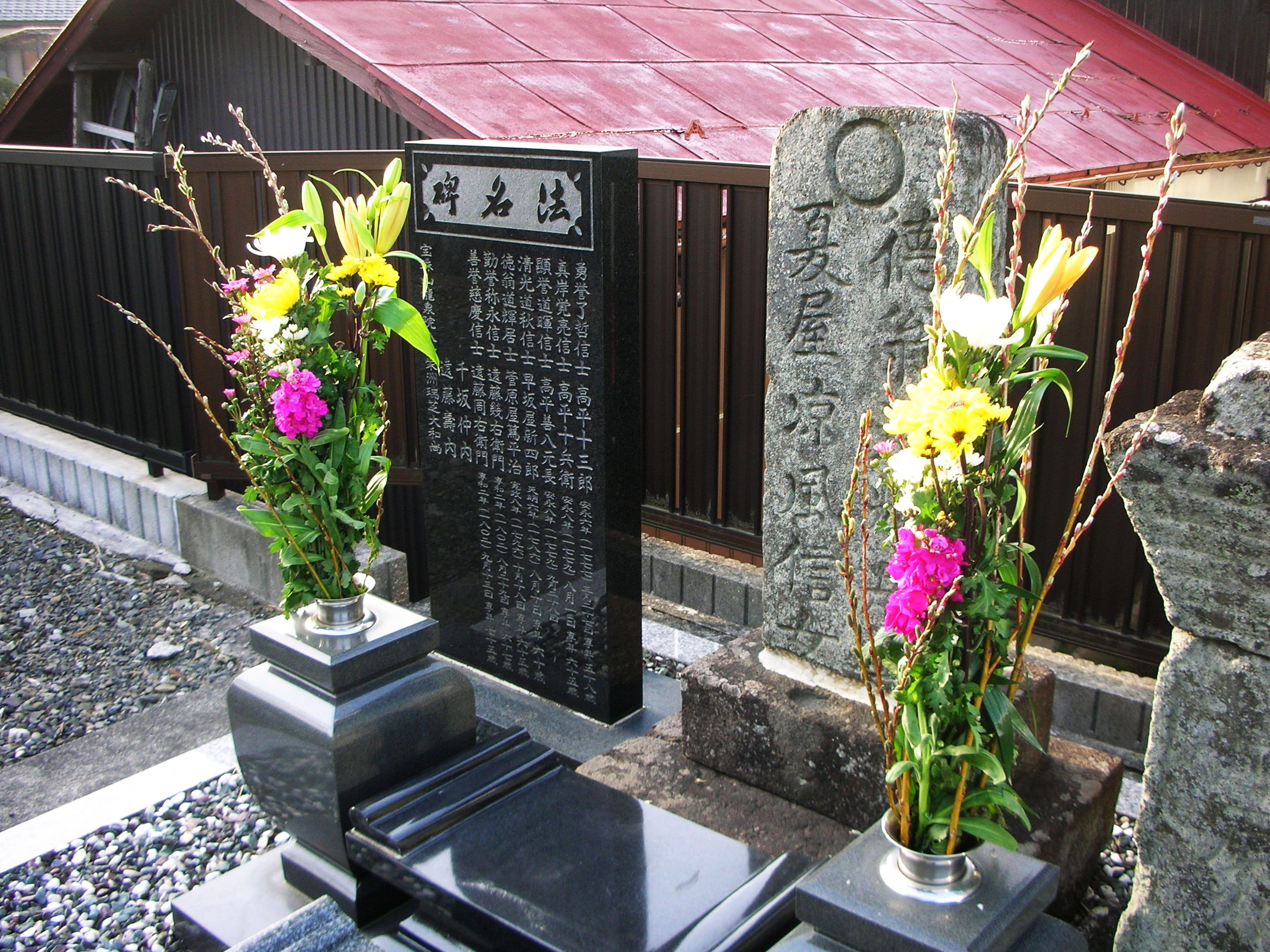 Stele at Kuhonji temple in Taiwa Town, Miyagi Prefecture, Japan